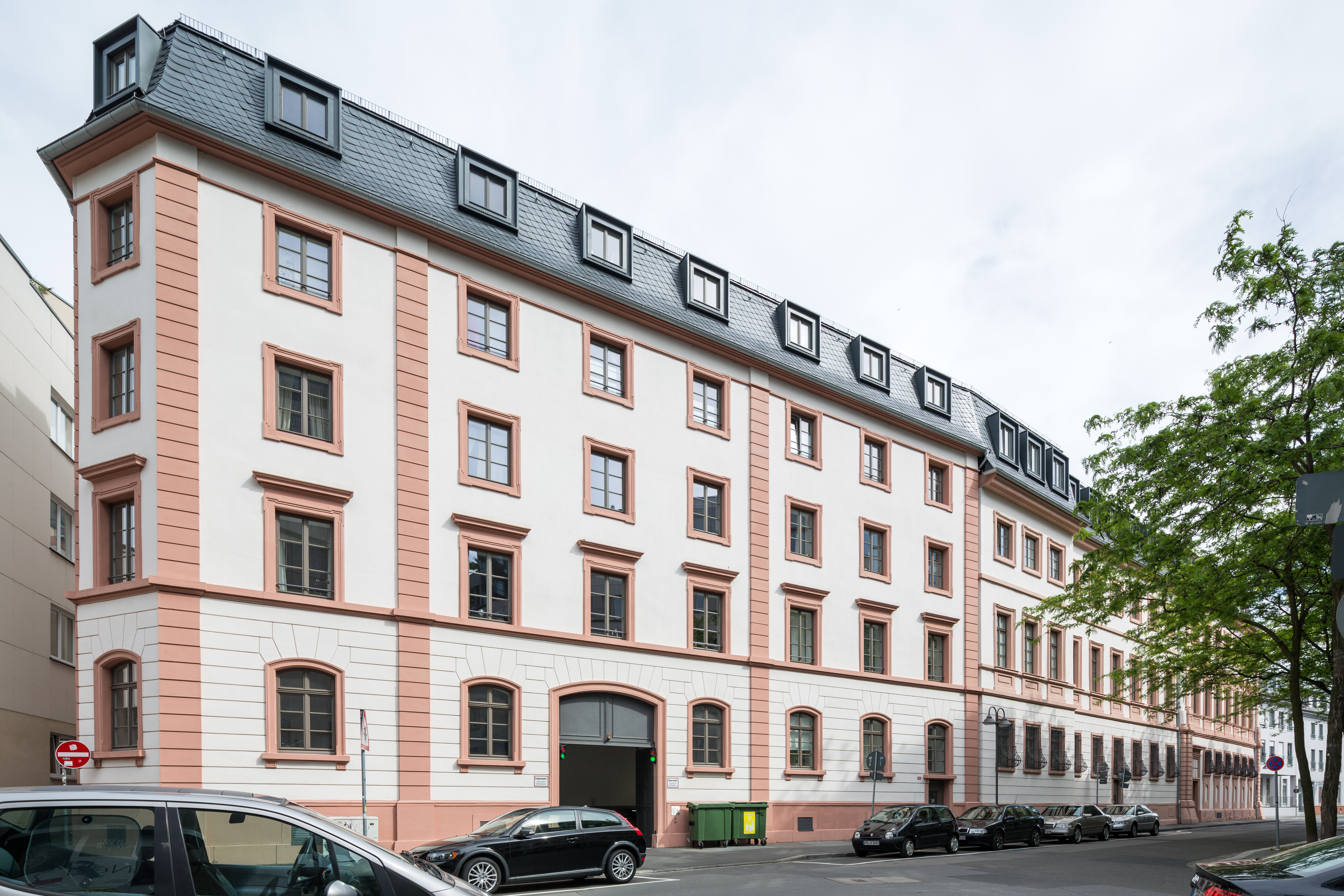 Mainz: Jüngerer Dalberger Hof (Younger Dalberg Court), western wing at the Emmeransstraße (Emmeran Street) as seen from the northwest